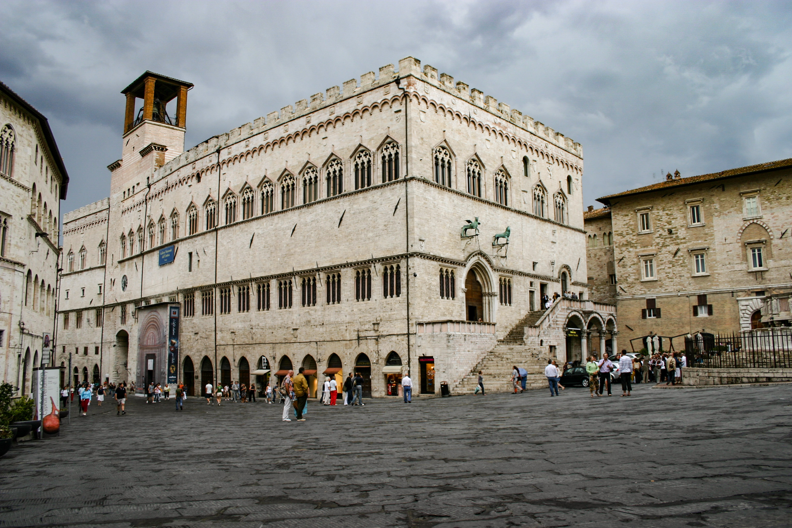 Perugia, Palazzo dei Priori in "4th of november" square. Picture by Giovanni Dall'Orto, August 6, 2006.